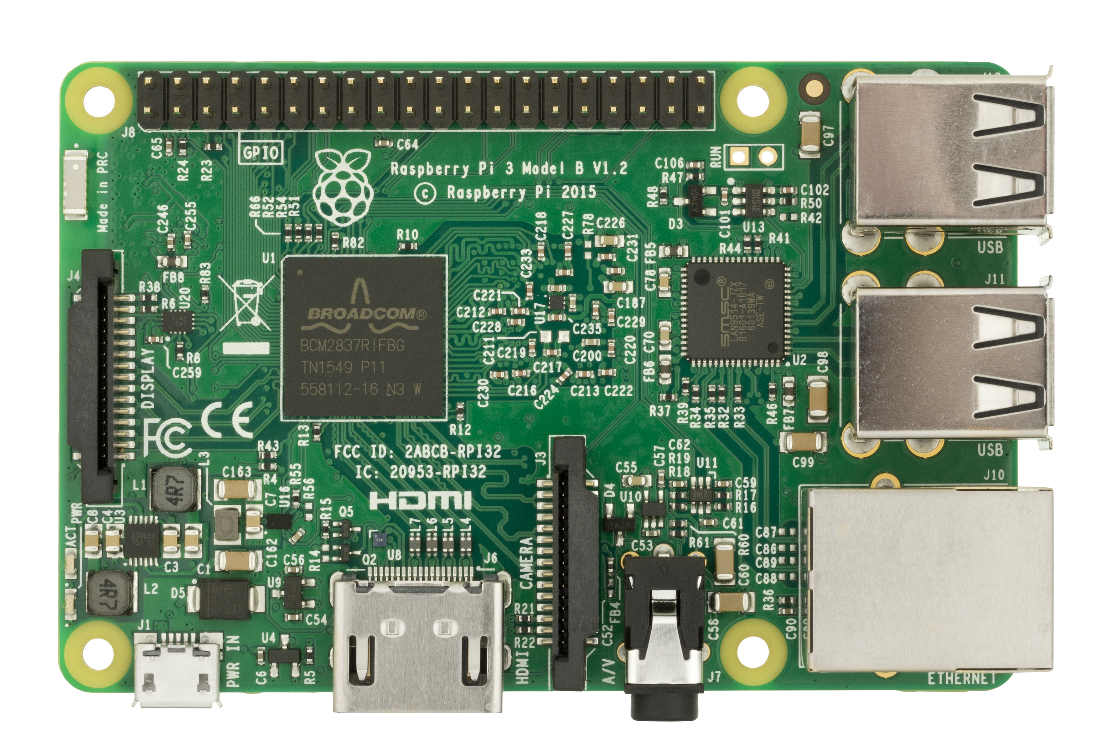 The Raspberry Pi 3, a low-cost single-board computer manufactured by the Raspberry Pi Foundation. Based on a Broadcom system-on-a-chip, the model 3 improves from the previous version with a higher clock speed and on-board Wi-Fi and Bluetooth.